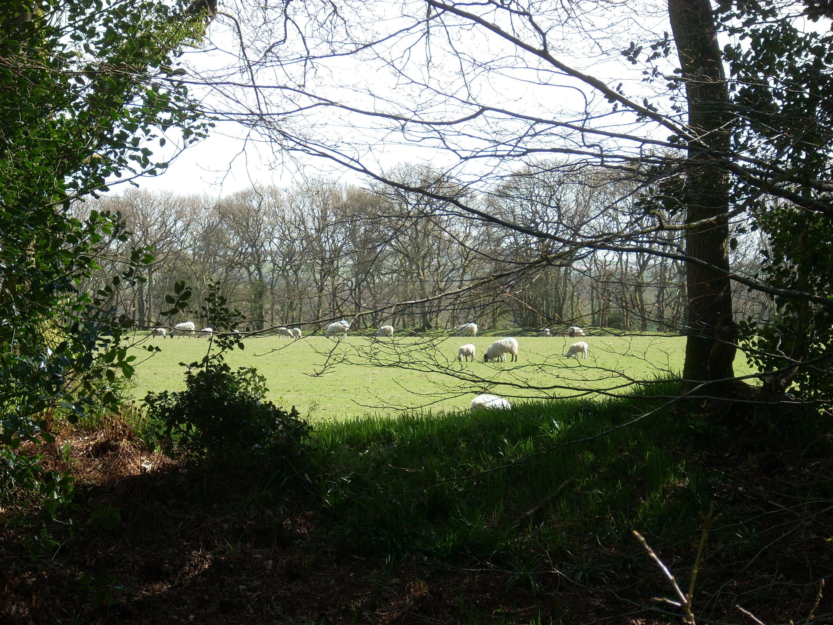 Castle Rings hill fort rampart. Far (south) rampart also visible at far edge of field.